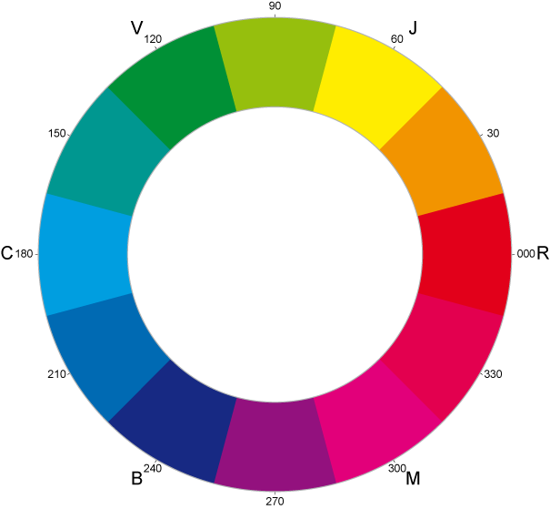 Cyan-Yellow-Magenta colorwheel, based on Image:Ryb-colorwheel.svg, with new colors.